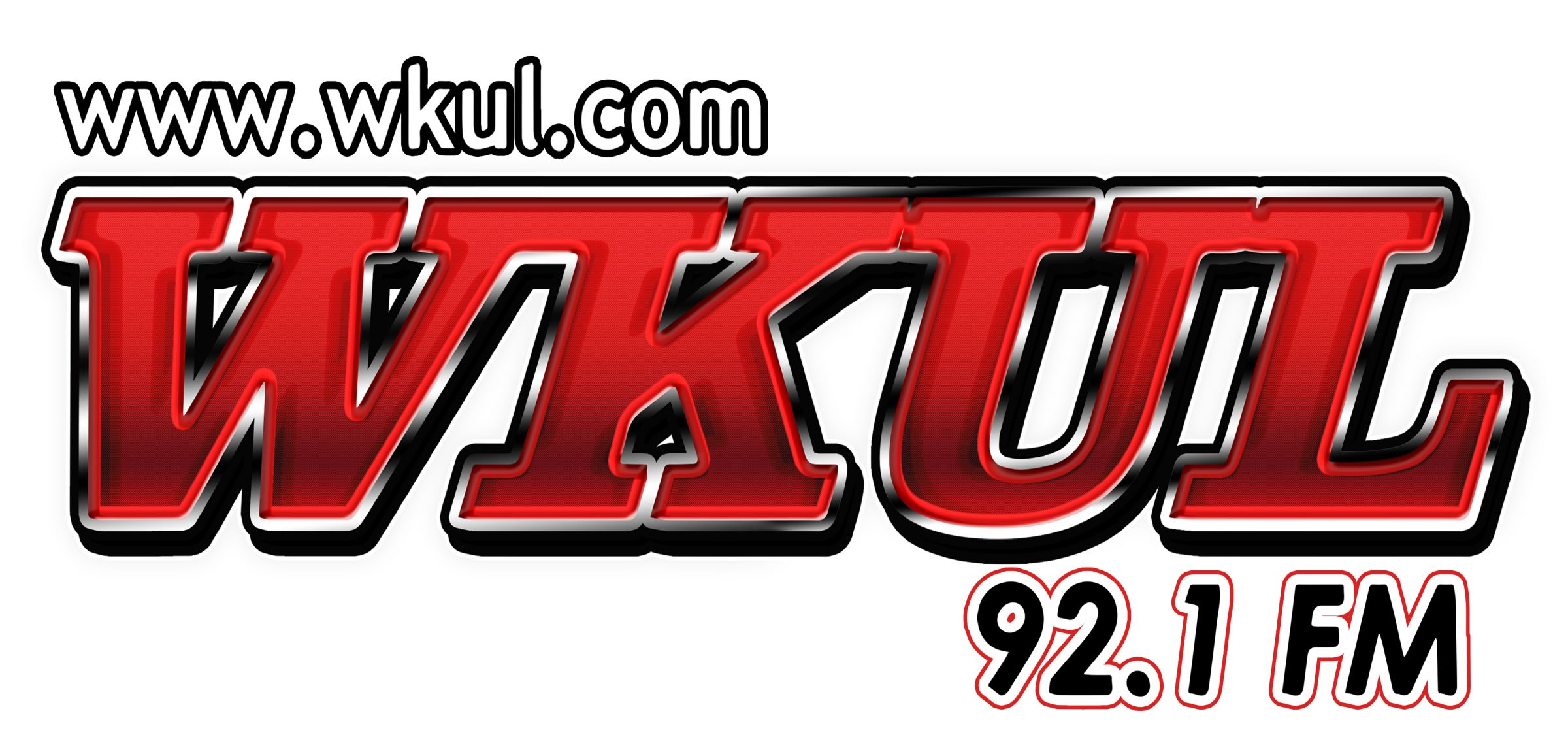 WKUL logo 2014